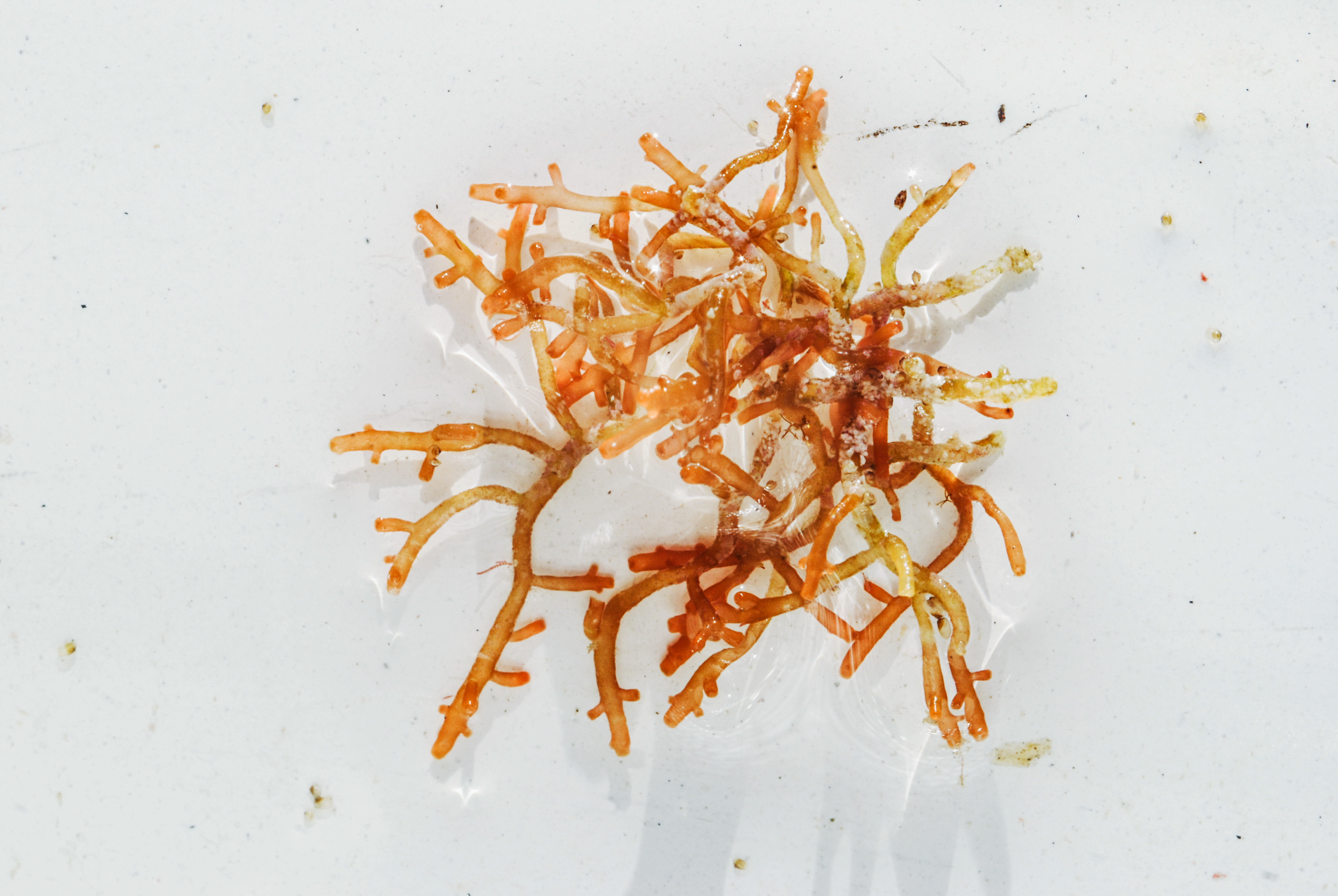 Chondria Dasyphylla - red algae, habbits on stones and mollusc shells from 0.5 to 20 meters very often epiphytic on the larger algaes. Common for the Black Sea.